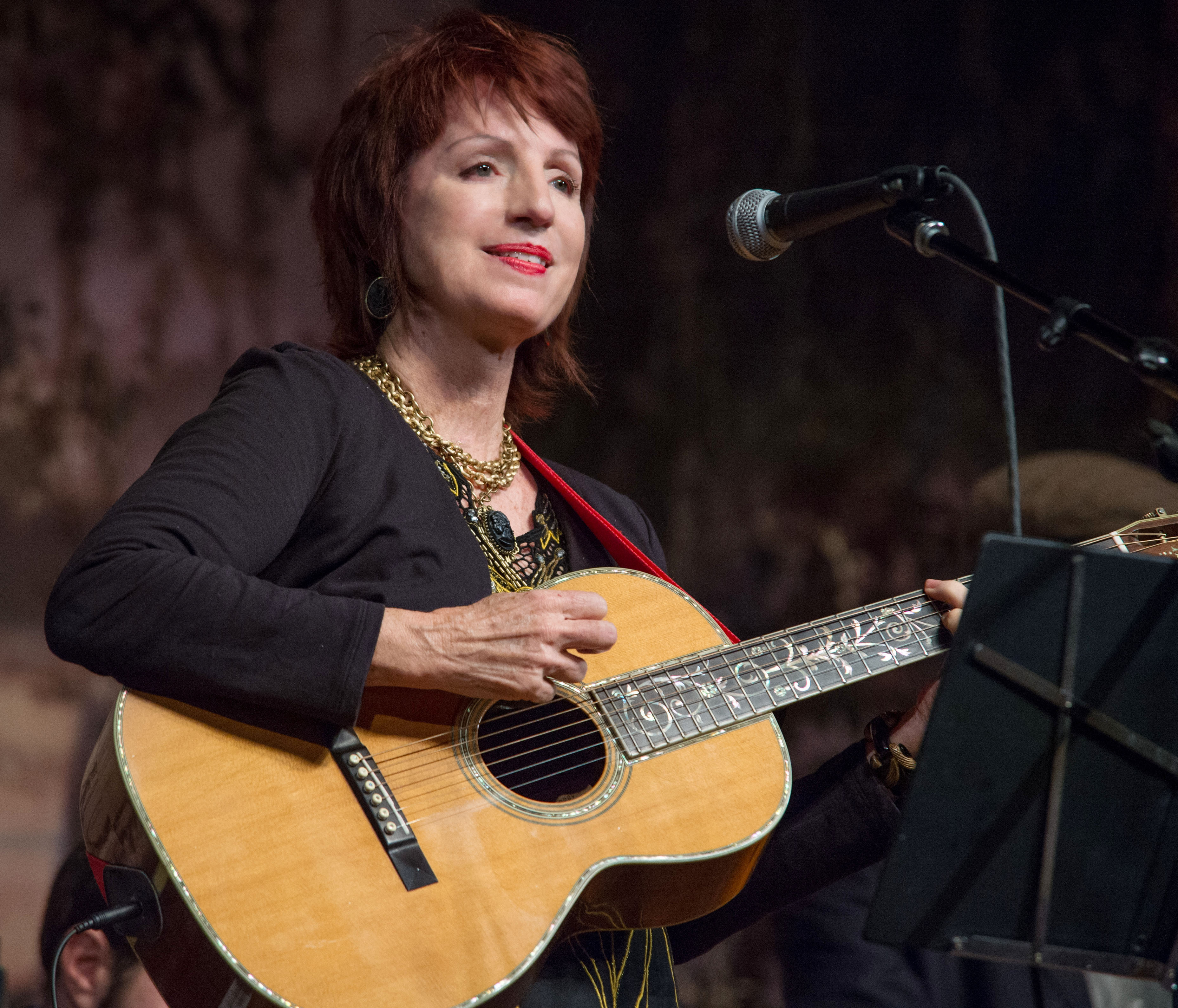 Ann Savoy performing with Ann Savoy and Her Sleepless Knights at the Liberty Theater, Eunice, LA, Nov. 17, 2012